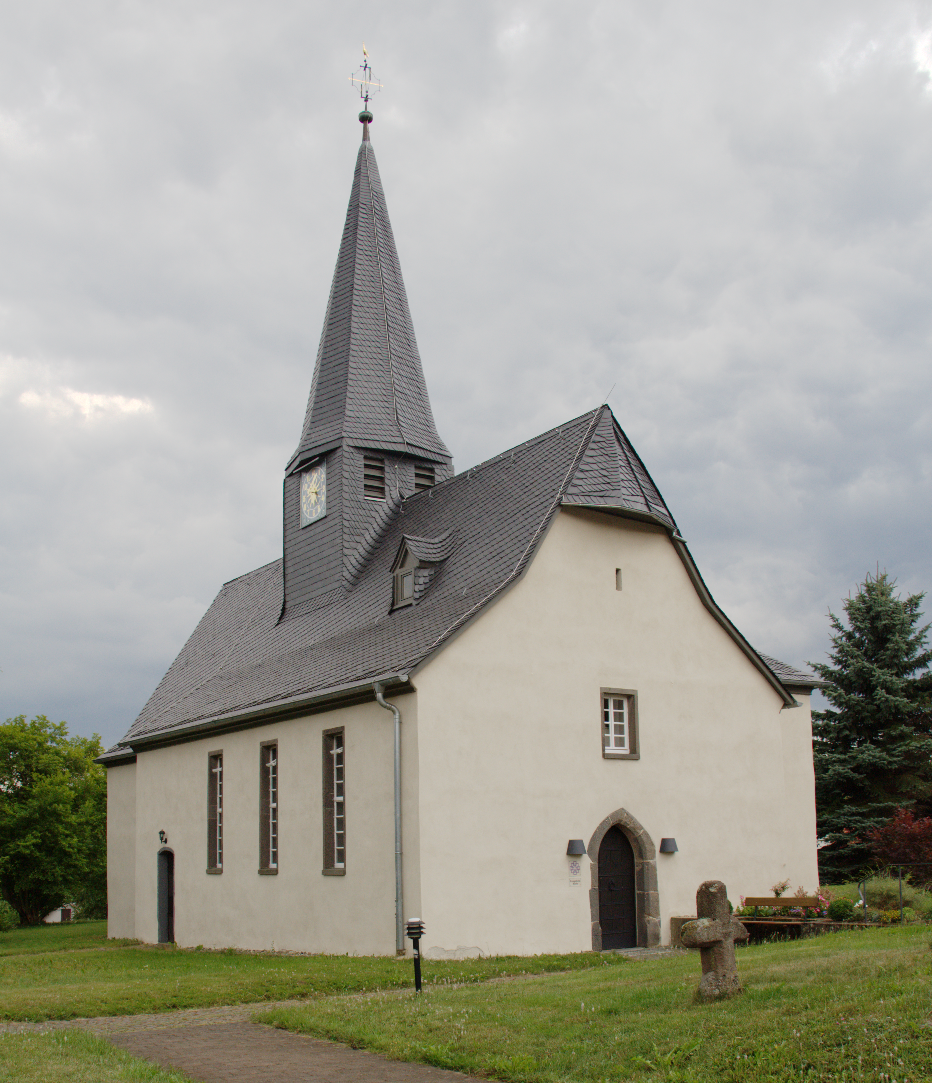 Protestant church in Flensungen Am Eisenberg / Muecke / Hesse / Germany